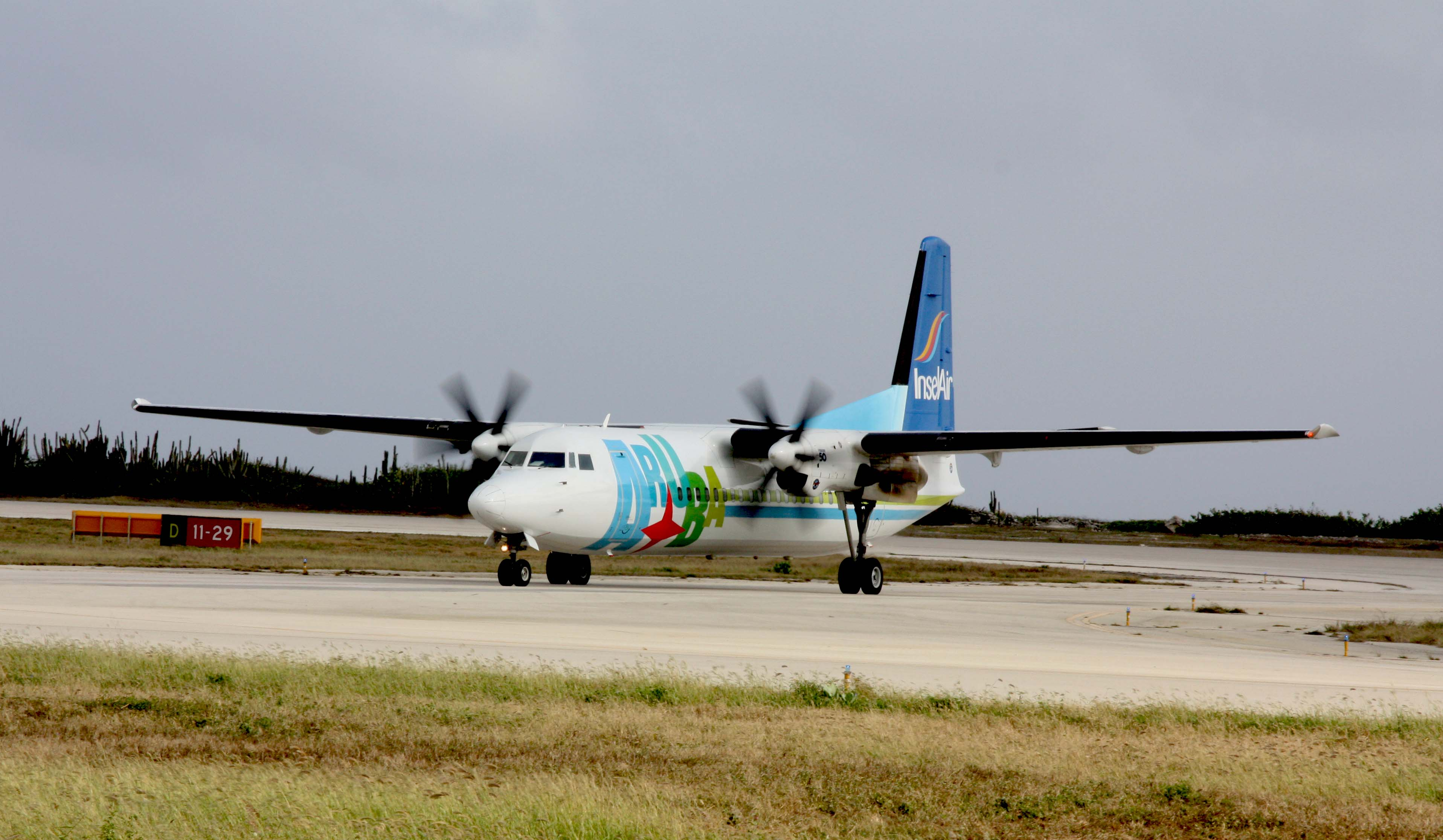 Insel Air Fokker 50 taxiing to gate at Curacao International Airport